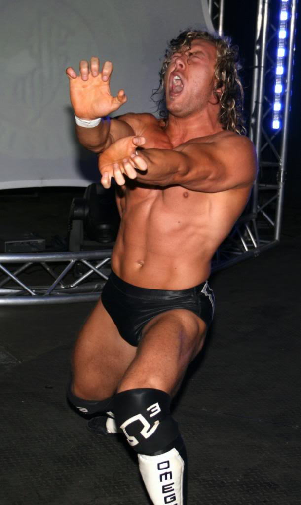 Kenny Omega doing his Hadouken pose during his entrance at a JAPW show in 2010